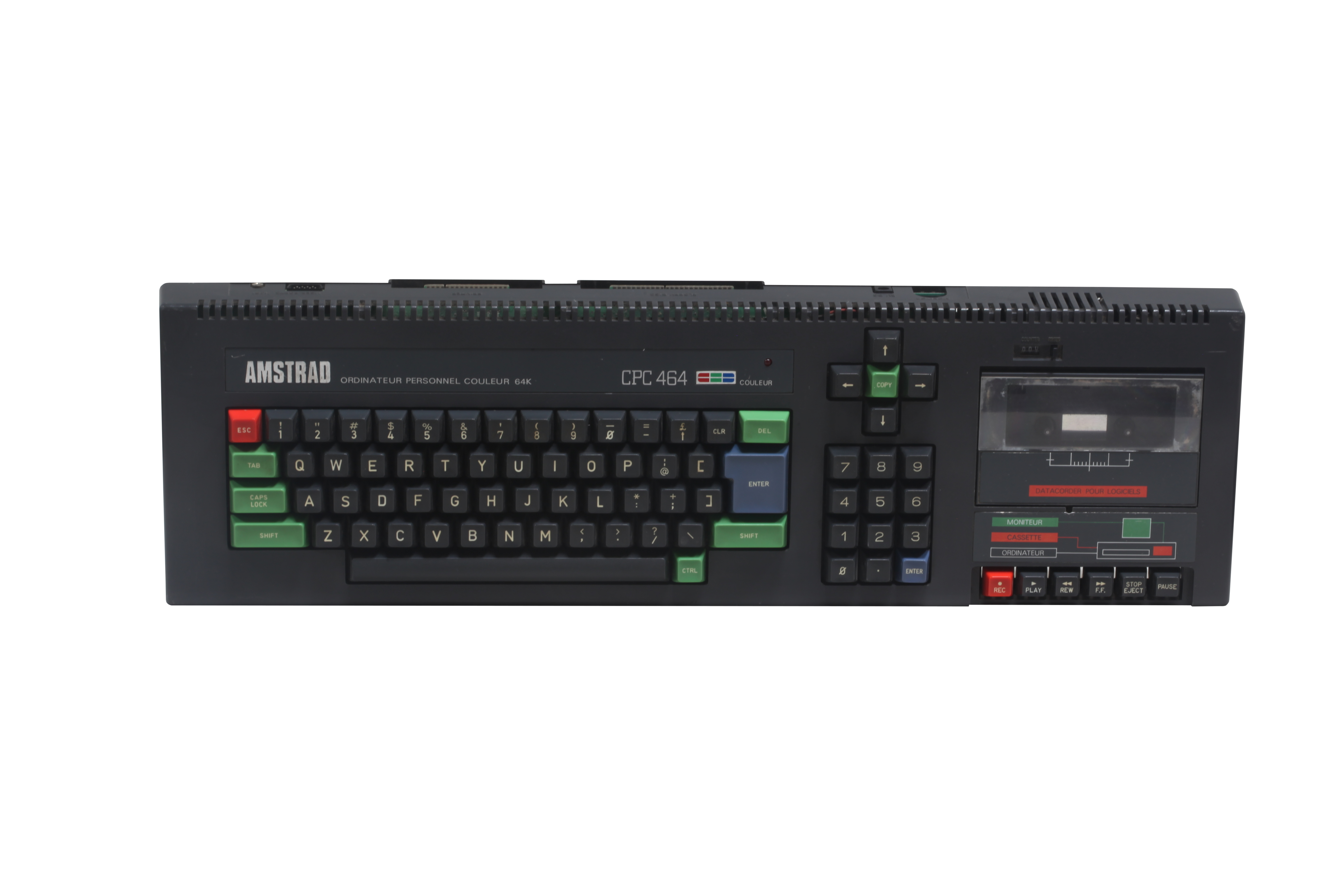 Amstrad CPC 464 computer. On display at the Musée Bolo, EPFL, Lausanne.